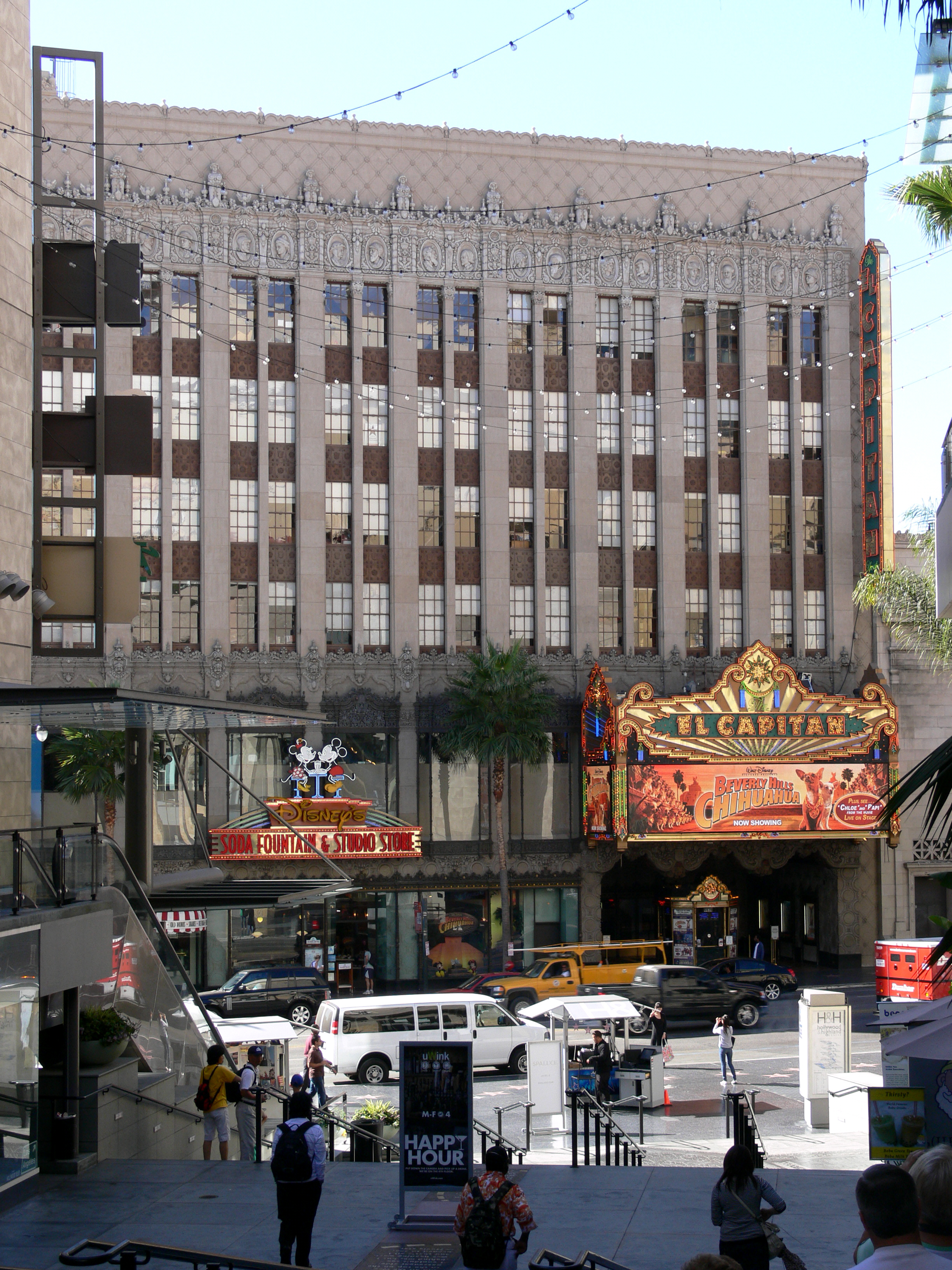 El Capitan Theater, Hollywood Boulevard, Los Angeles, California seen from the Kodak Theatre mall across Hollywood Boulevard